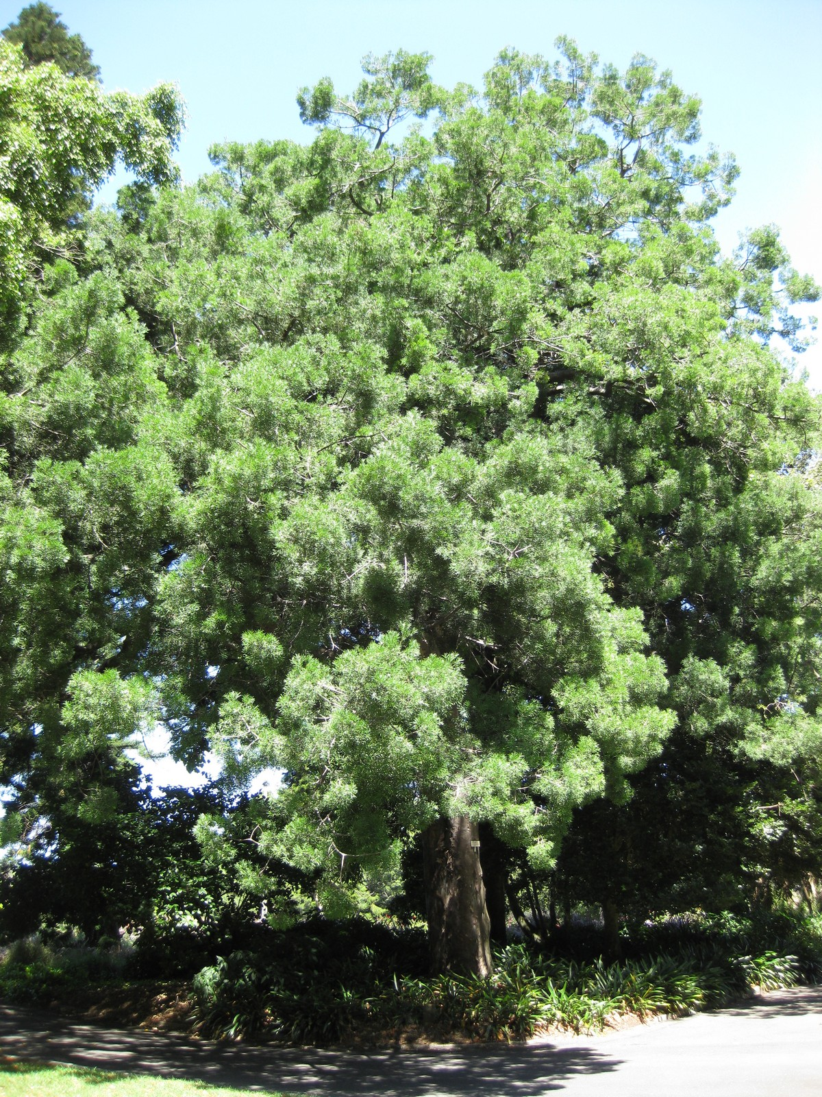 Photographed at the Royal Botanic Gardens Sydney (Australia) in December